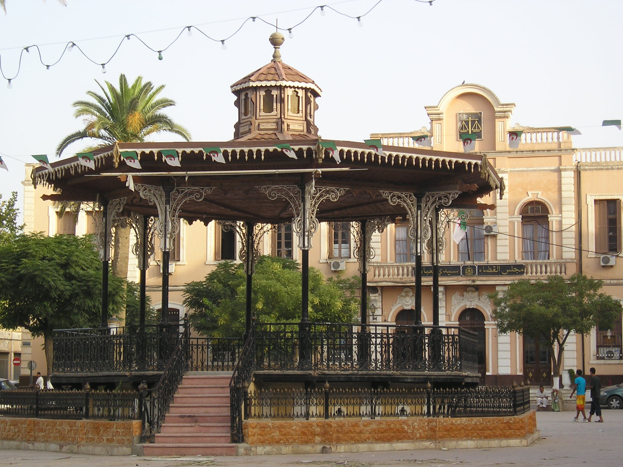 Gazebo on Place Carnot in Sidi bel Abbès, Algeria